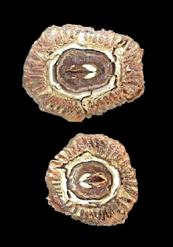 Cryptolepas rachianecti Dall 1872